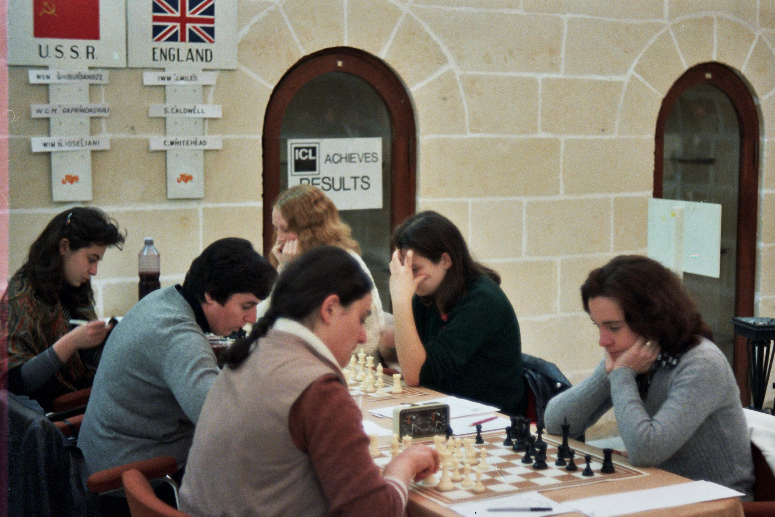 Chiburdanidze - Miles, Gaprindashvili - Caldwell, Joseliani - Whitehead, Chess Olympiad 1980 in Malta, Photographer Gerhard Hund.